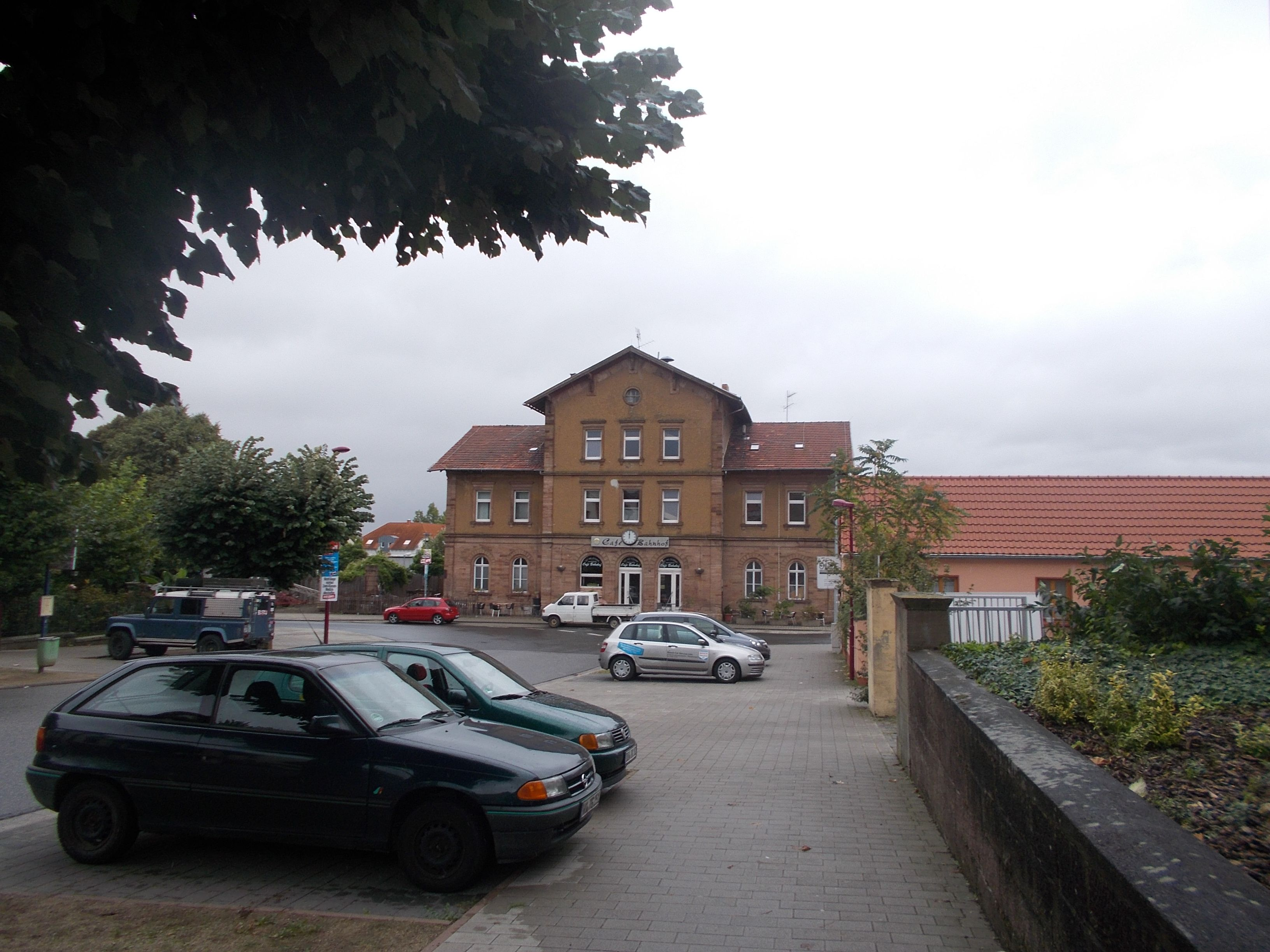 Old station building of Kirchheimbolanden